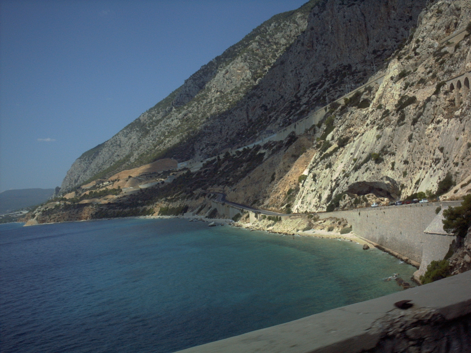 National road 8 (PATHE, European road 94) and Athens-Corinth (Korinthos) railway line at Kakia Skala, Attica, Greece.